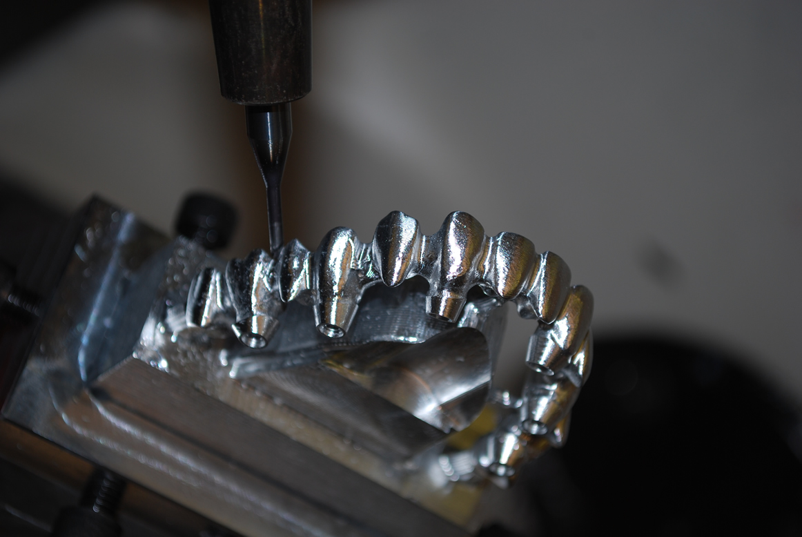 Dental bridge being machined using the WorkNC Dental CAD/CAM software from Sescoi, and a Mikron HSM600U machine.